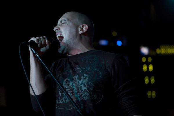 Mike DiMeo